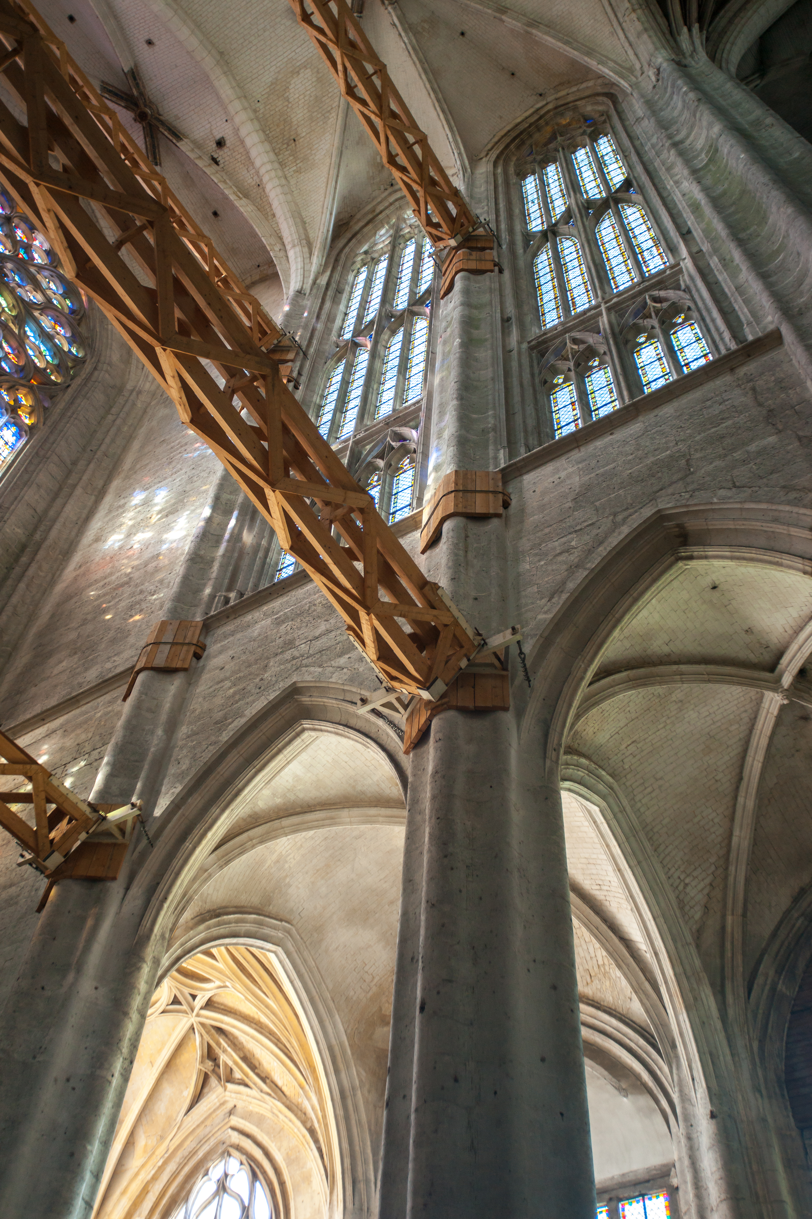 Cathedral St. Pierre Beauvais, Wooden constructions for stabilization. Beauvais/France.